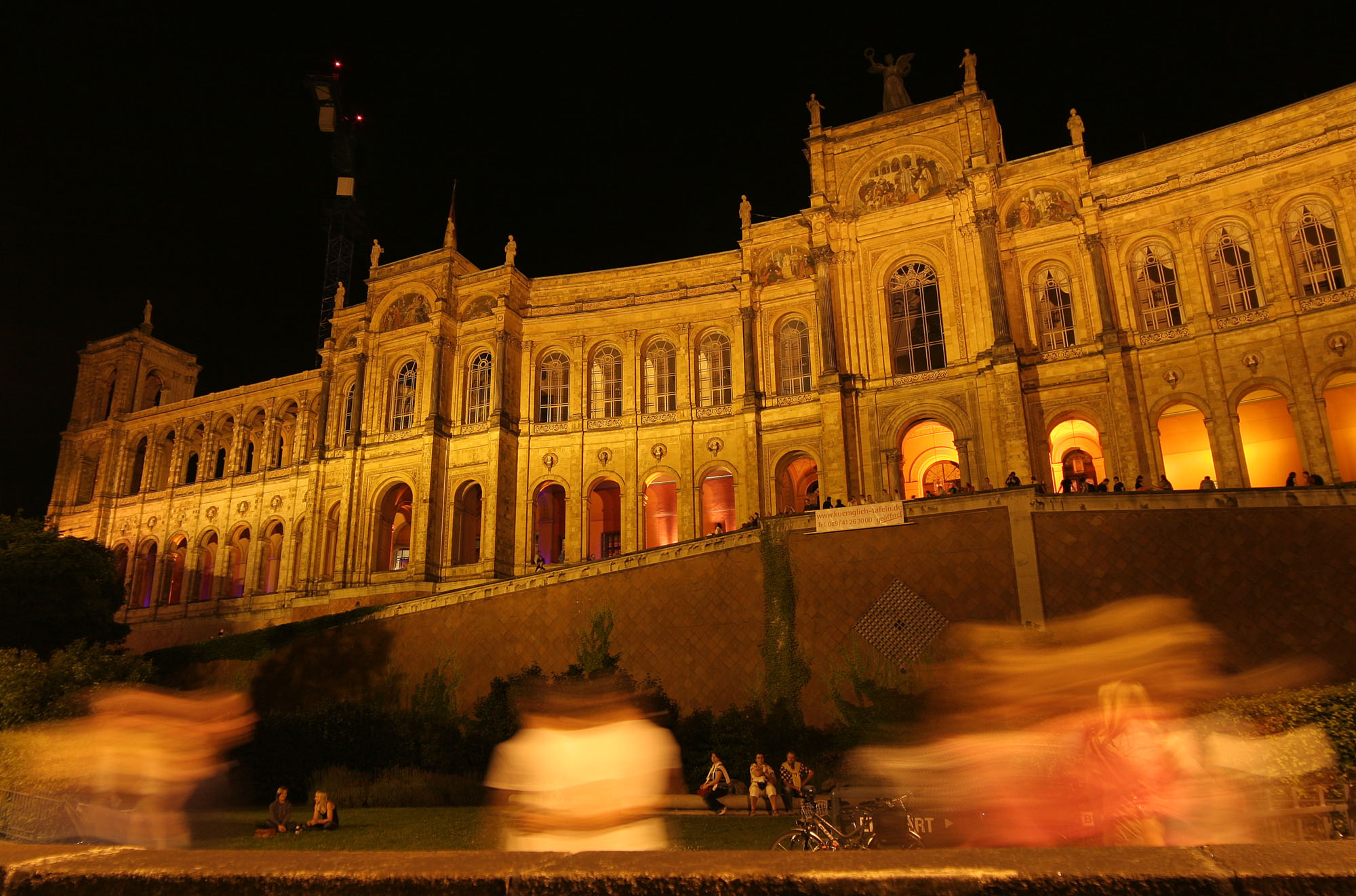 Maximilianeum by night at the Isarbrueckenfest